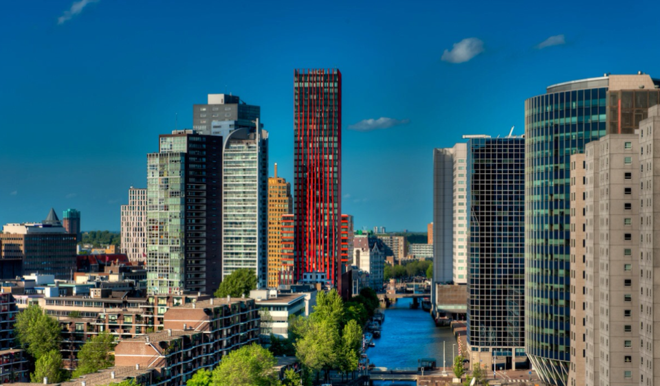 Wijnhaveneiland Rotterdam